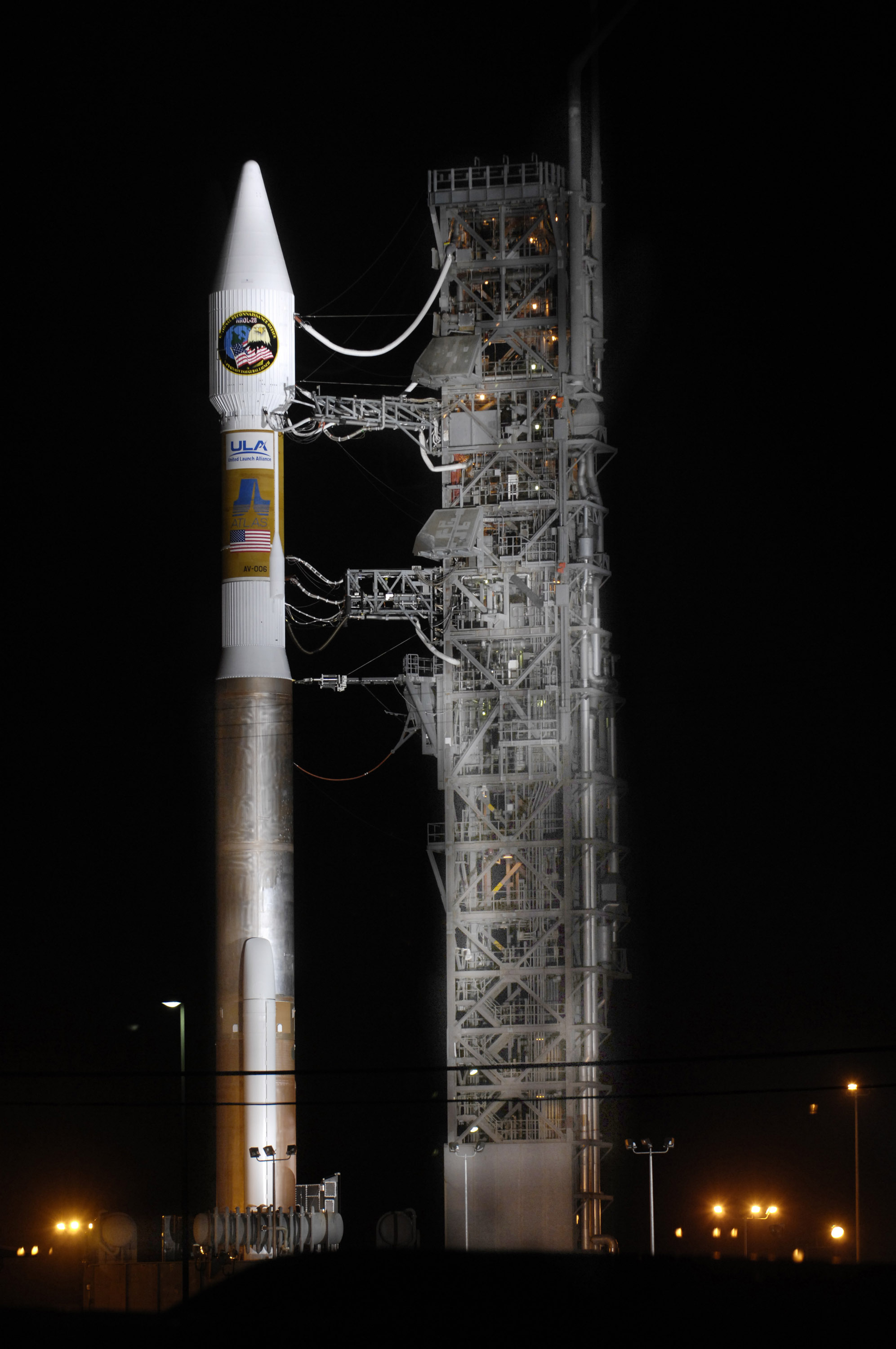 An Atlas V stands on Space Launch Complex-3 during its mobile servicing tower rollback on March 12. The Atlas launched at 3:01 a.m. PDT March 13 at Vandenberg Air Force Base, Calif. It carried a National Reconnaissance Office payload and was the first Atlas V to launch from the West Coast.